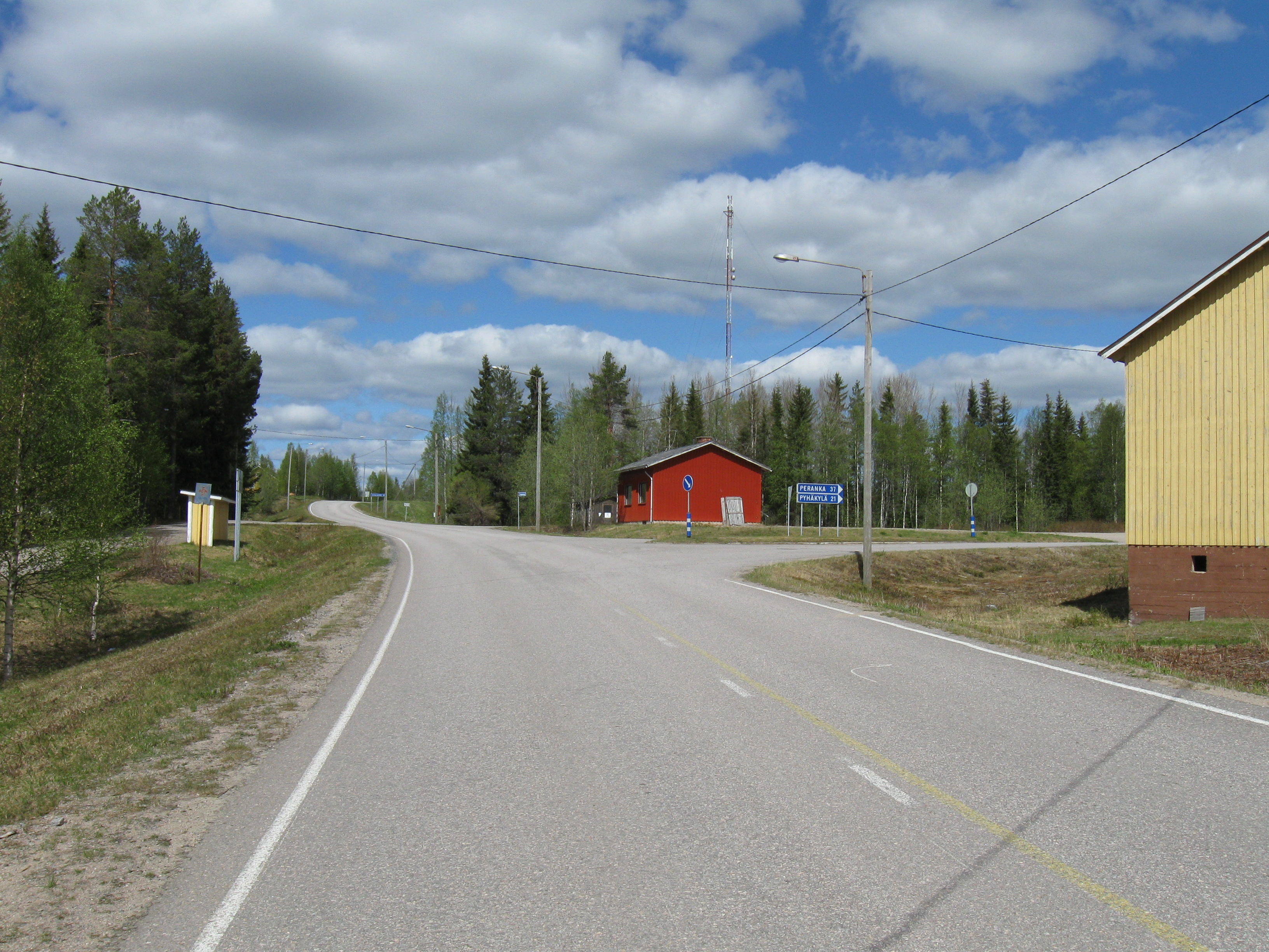 The Näljänkä village in Suomussalmi, Finland, at the crossing of the local road 800 and the connecting road 8980.